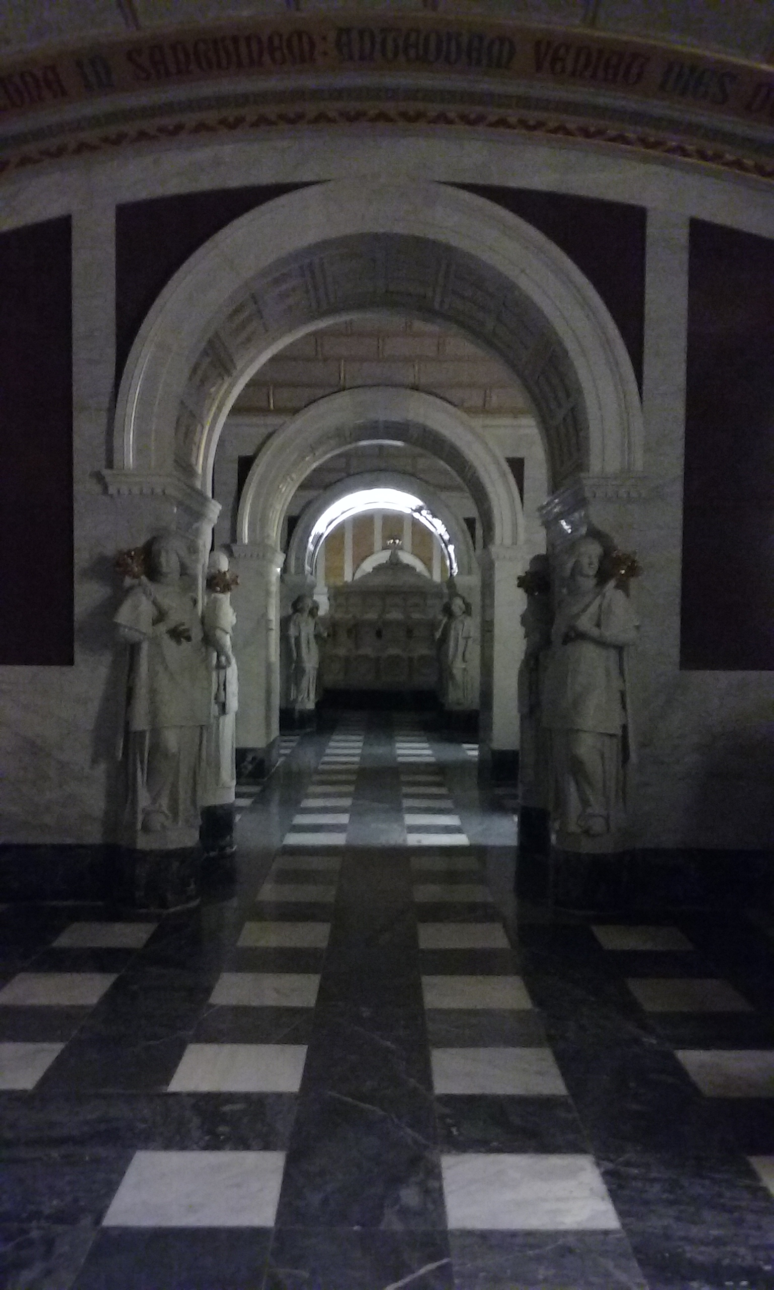 Pantheon of the Infantes (Monastery of San Lorenzo de El Escorial), looking from Chapel 9 towards Chapel 6